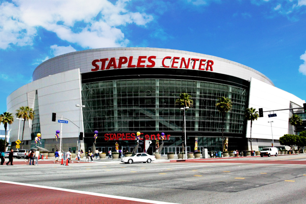 View of Staples Center